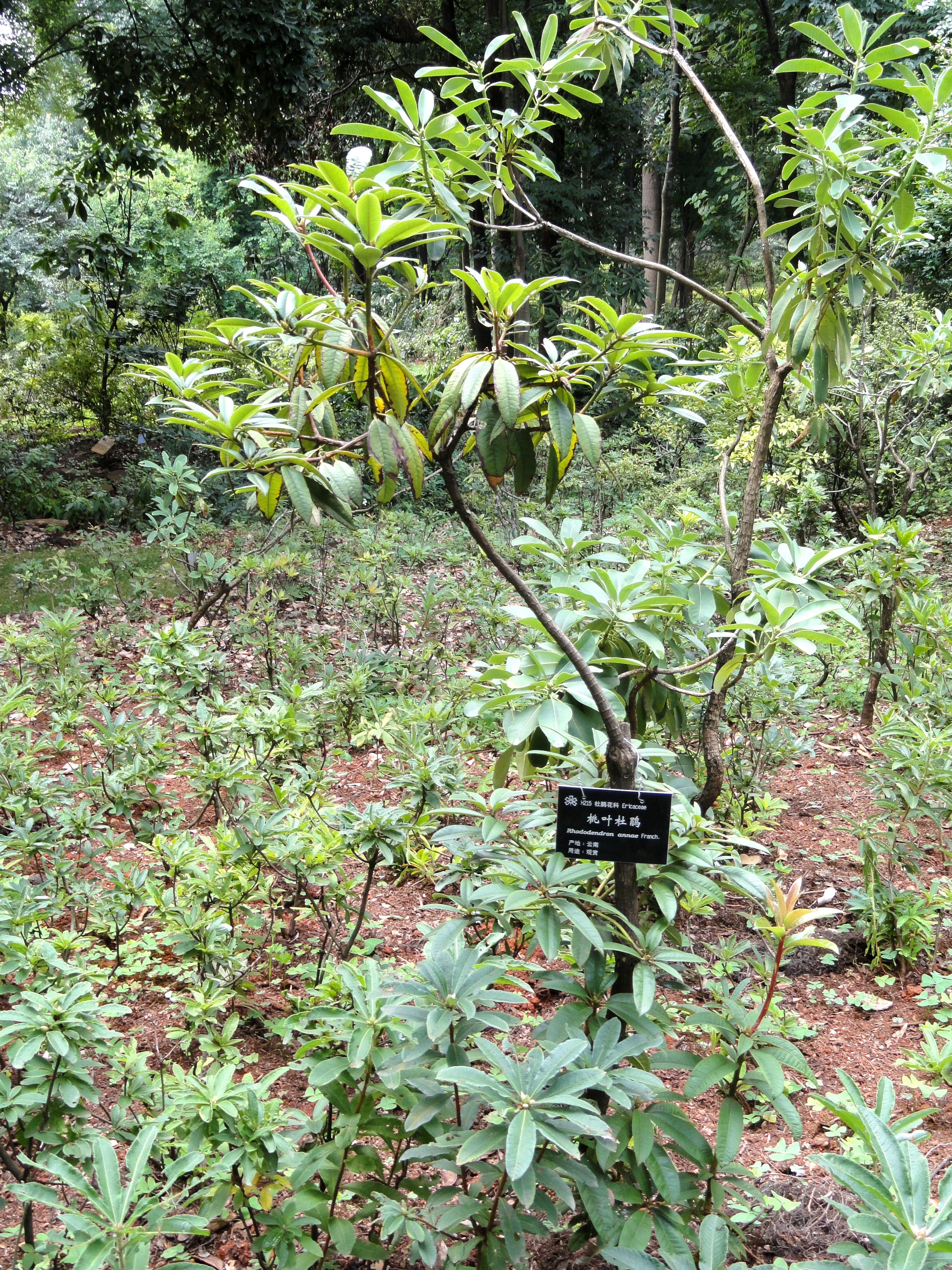 Rhododendron specimen in the Kunming Botanical Garden, Kunming, Yunnan, China.